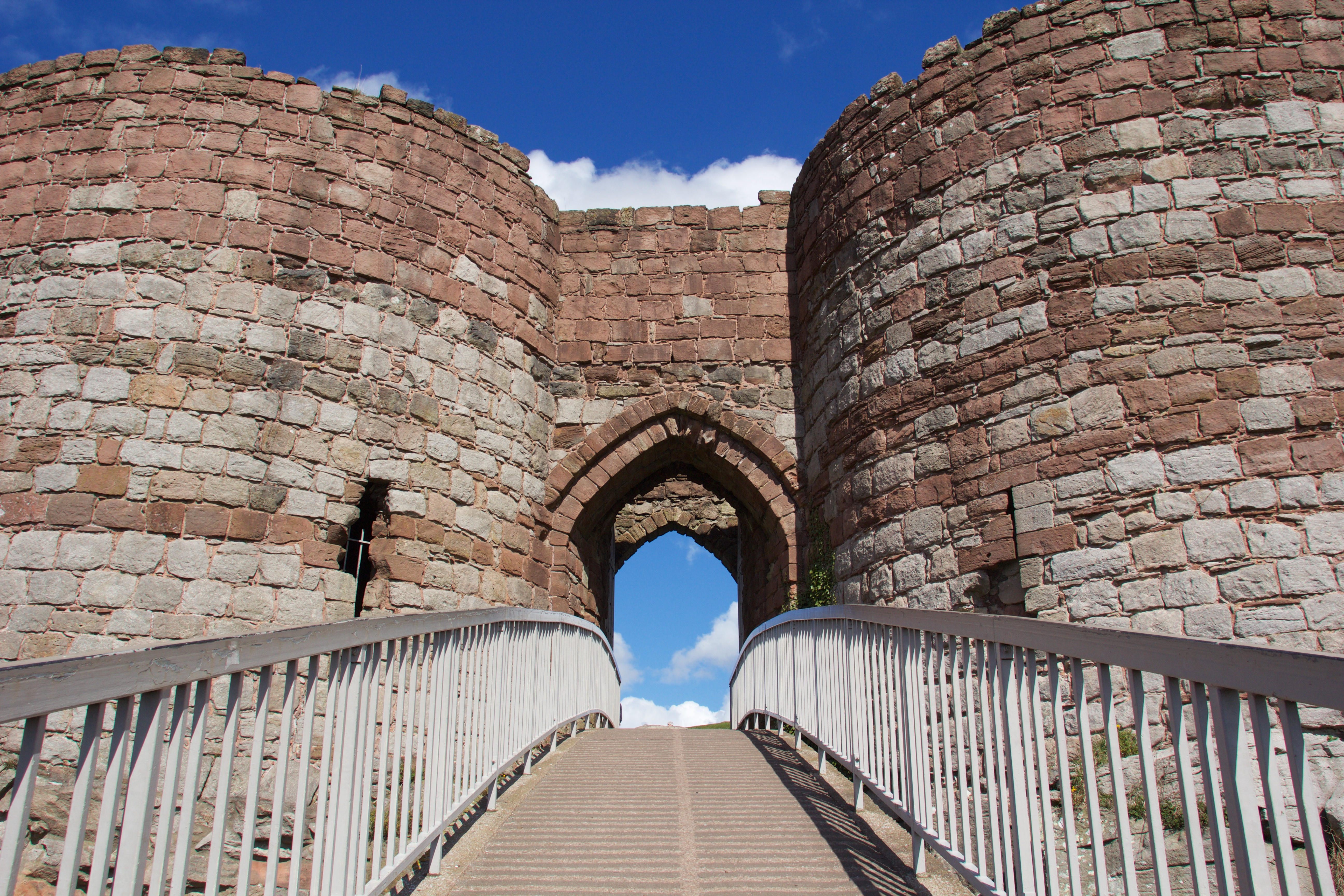 Beeston Castle, UK, in April 2016